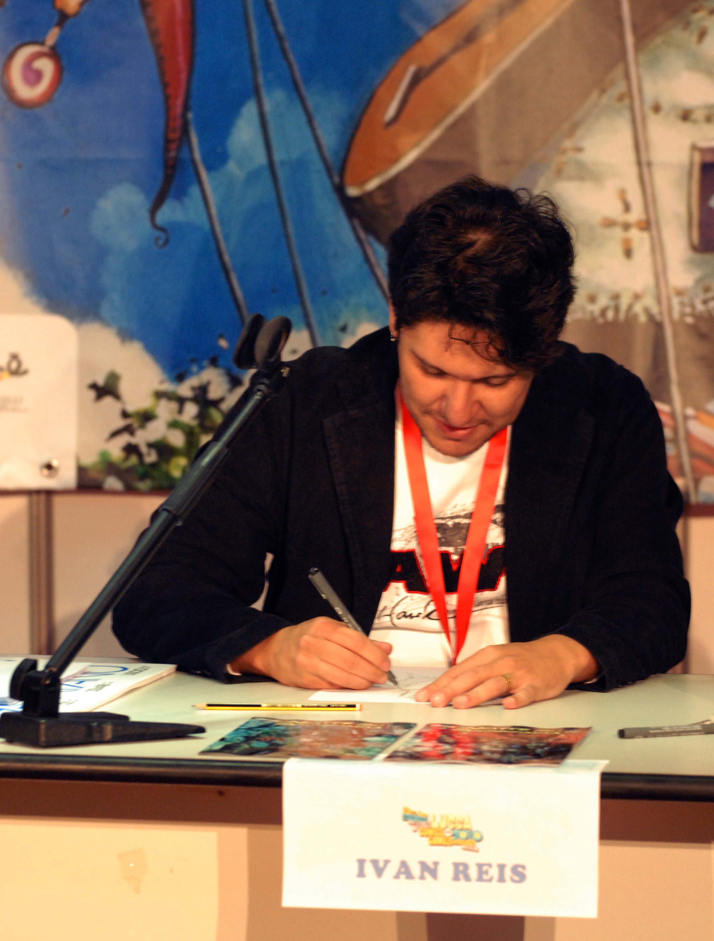 Ivan Reis Photo taken during Lucca Comics&Games 2010